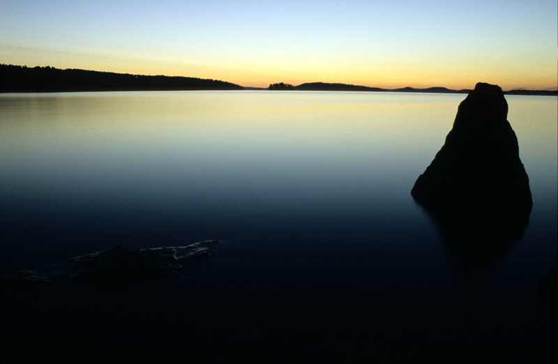 Vesijärvi, Lake near Lahti at summer night (Finland)